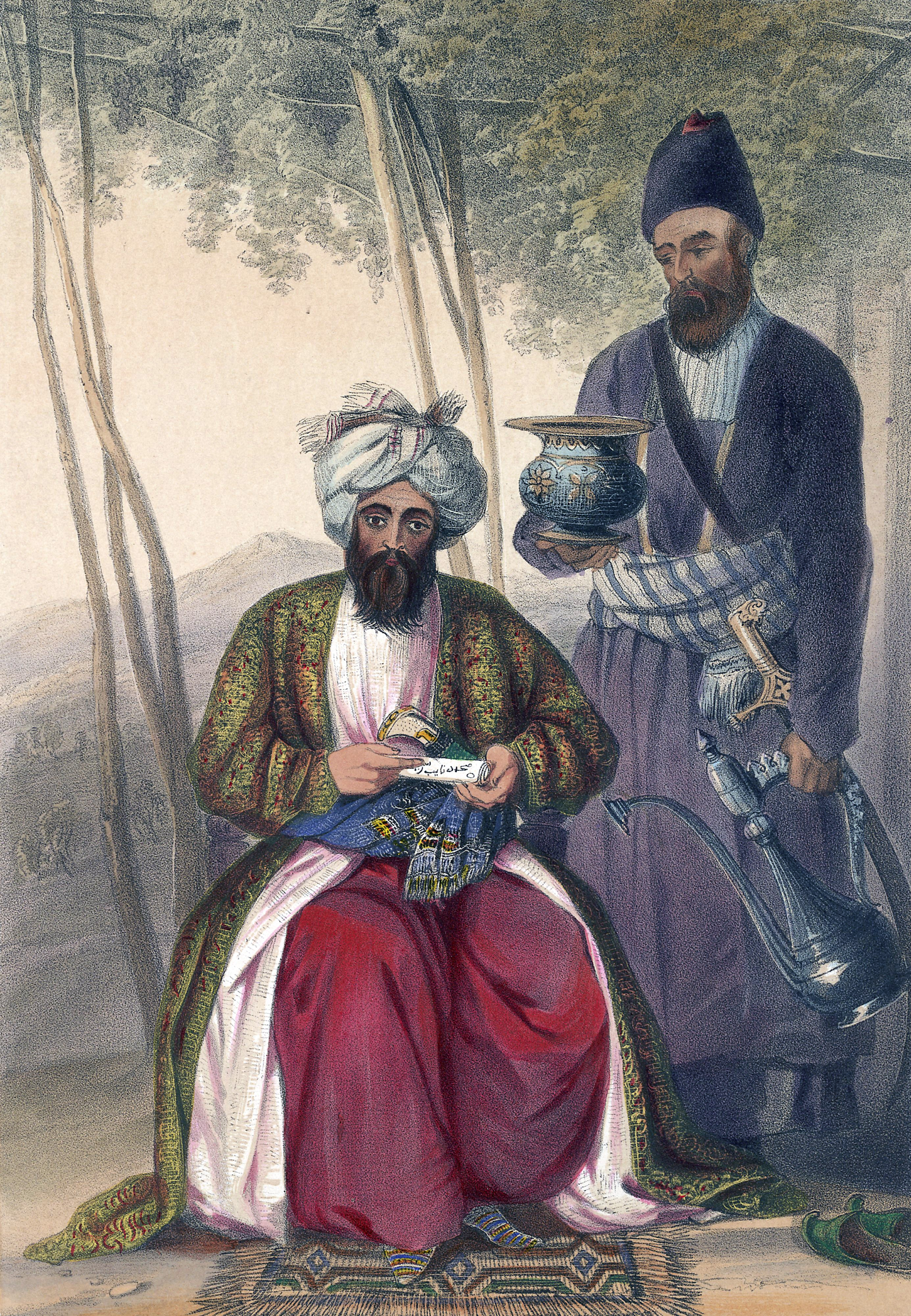 Mahomed Naib Surreef, a celebrated Kuzzilbach chief of Caubul and his Peshkidmut This lithograph is taken from plate 15 of 'Afghaunistan' by Lieutenant James Rattray. Mohammad Naib Sharif was a Shia chieftain from the powerful Qizilbash tribe originally from Iran. Other Afghans were mostly Sunni Muslims and Rattray wrote: "This difference in their religious tenets creates the bitterest feeling between the two sects and leads to constant bloodshed." Sharif was a close friend of Alexander Burnes and had rescued Burnes' dishonoured corpse and given it a decent burial. He compromised himself so much due to his steadfast friendship with the British that he was constantly threatened with destruction. He left Afghanistan with the British armies in 1842 and was given a handsome stipend by the Indian Government. His Peshkhidmat - or attendant - wears the black lambskin cap of the Iranians. Through the opening at the top peeps the red lining, like a tongue, from which the term Qizilbash, meaning red cap, is derived.